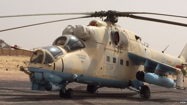 Chad army combat helicopter at the Diffa Airport.